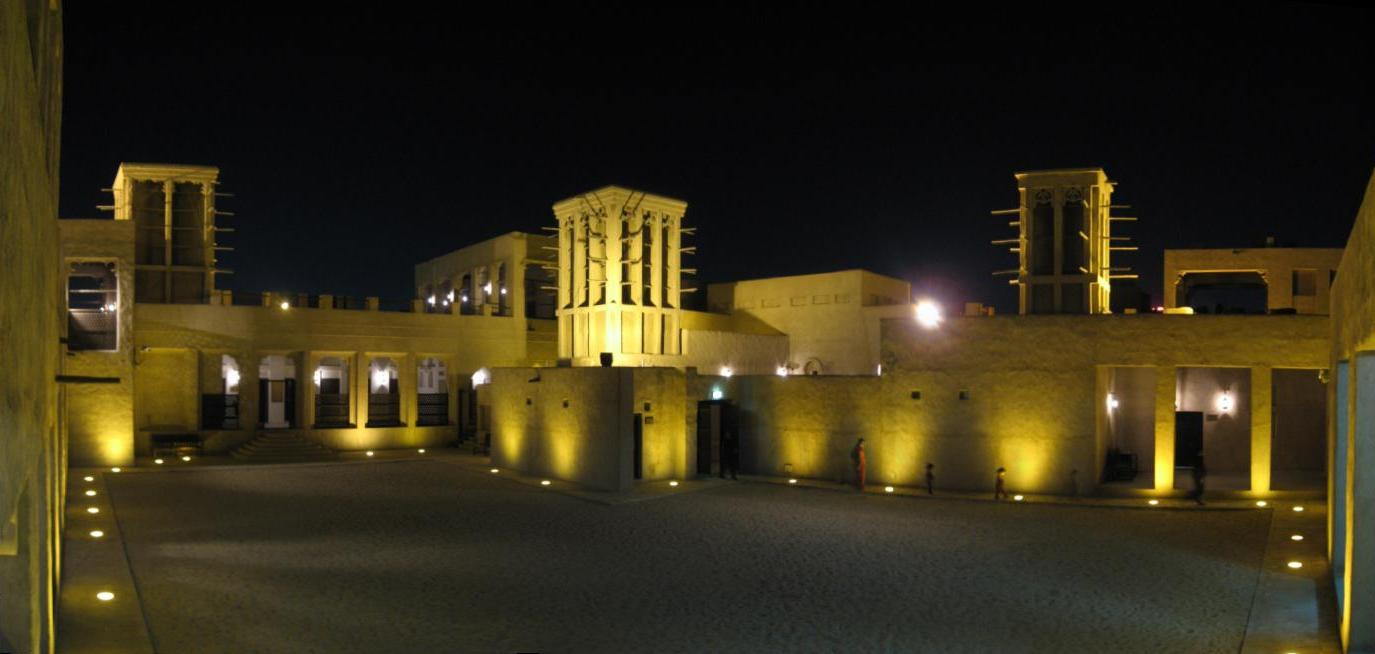 Sheikh Saeed Al Maktoum House at night